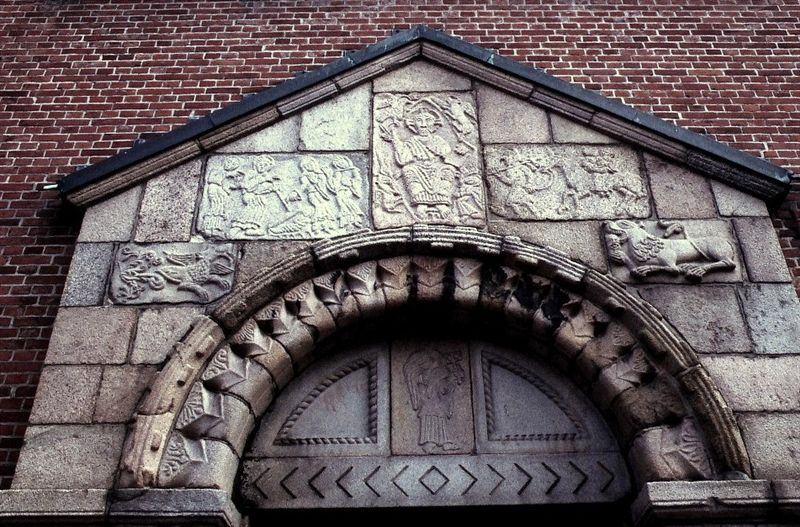 Vor Frue Church in Aalborg Kommune, Denmark. Arch.Johannes Emil Gnudtzmann